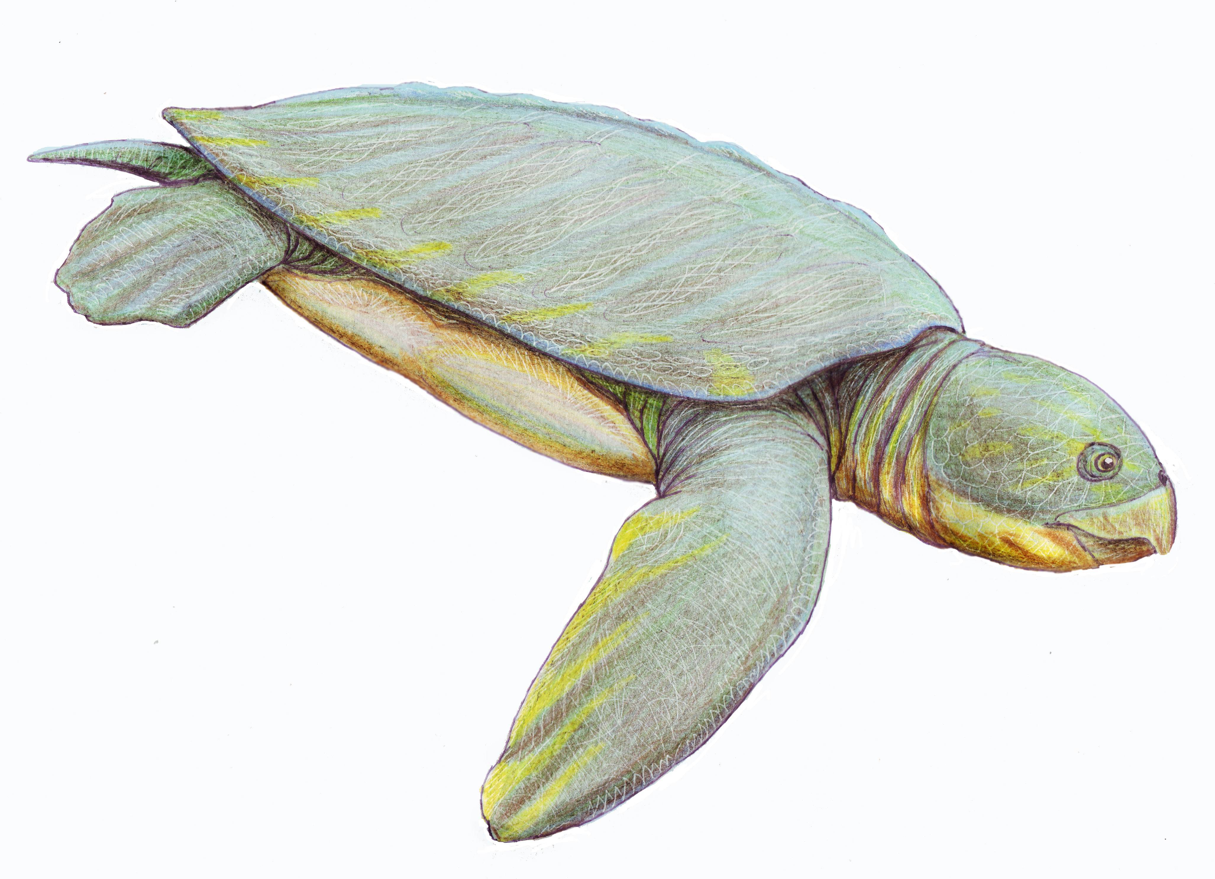 Protostega gigas - giant sea turtle from Late Cretaceous of Kansas